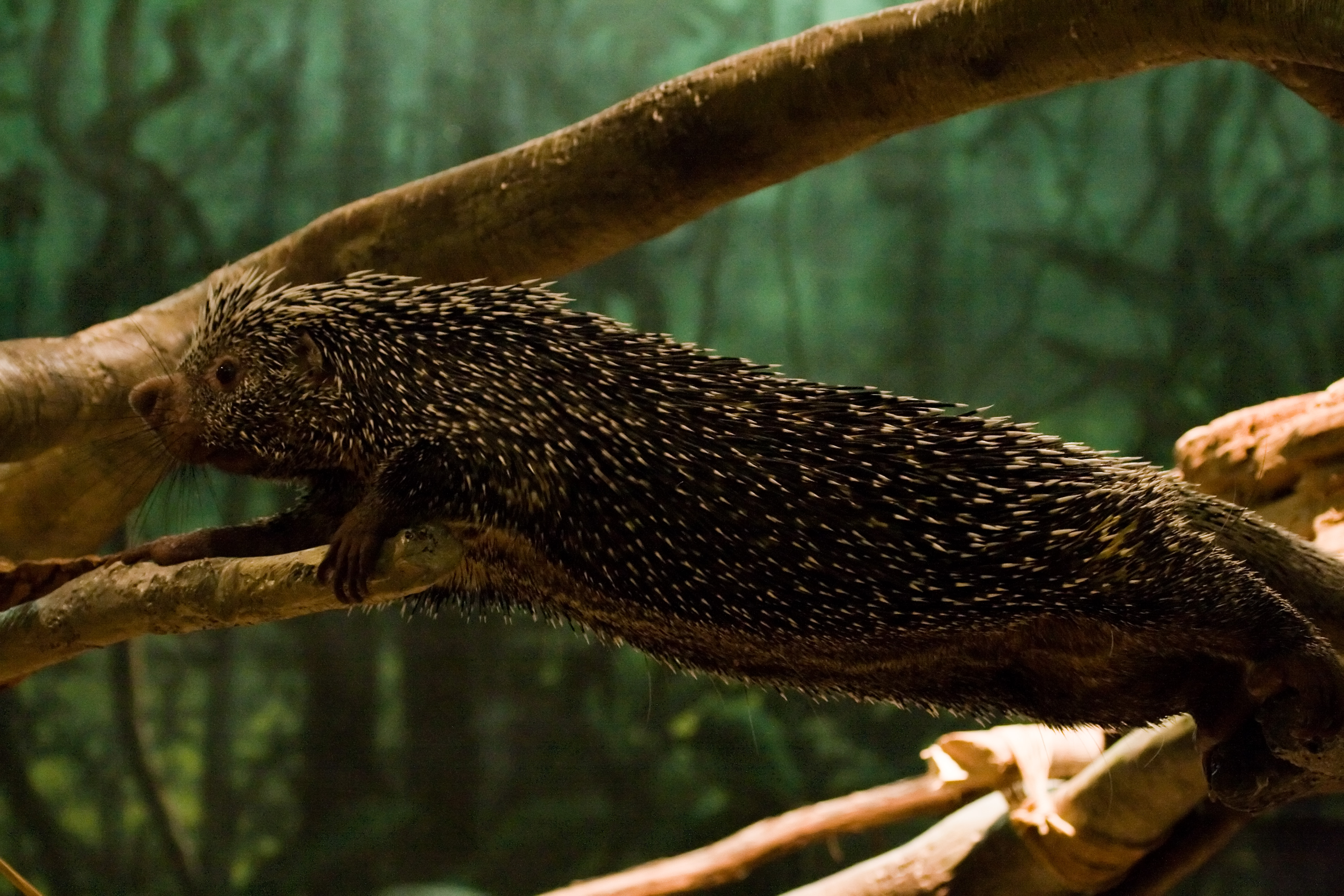 For Thanksgiving we took a road trip to the Cleveland Zoo - finally have gotten around to processing some of the pics This is the 2nd set of seven shots